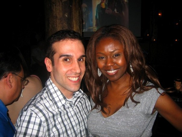 Shamika Cotton and Her Husband Bob Ketchum